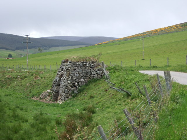 A lime kiln in Glen Buchat By Water of Buchat, close to the access road to Upperton farm.